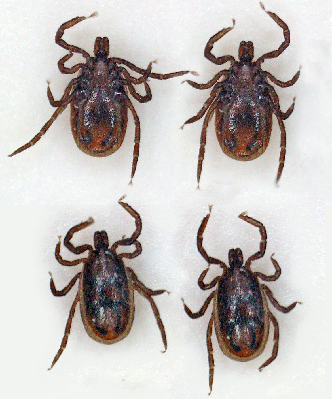 Male Tick Ixodes ricinus found in the forest of Flines-lès-Mortagne (northern France, near the Belgian border) July 2015